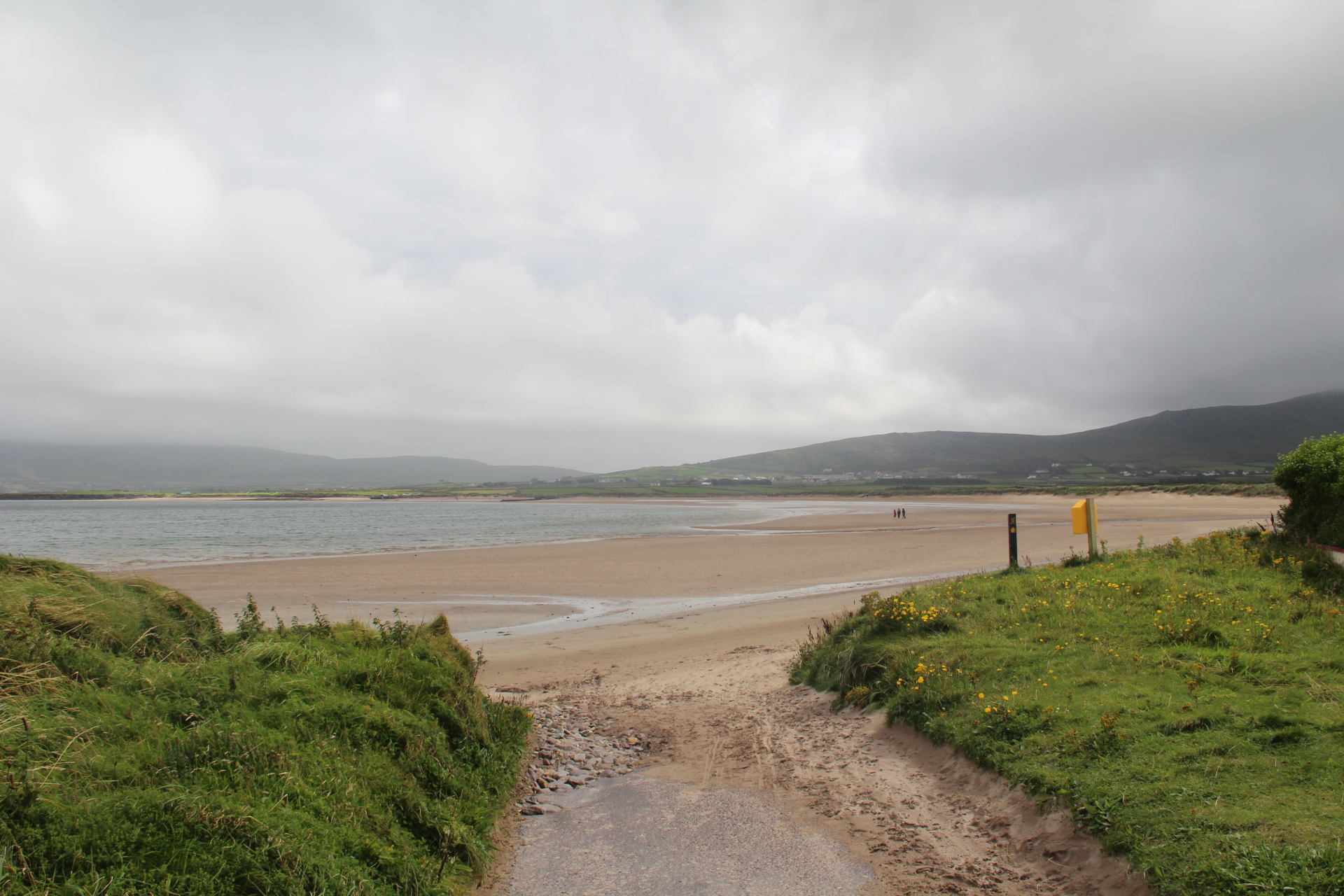 Ard na Caithne, Ciarraí